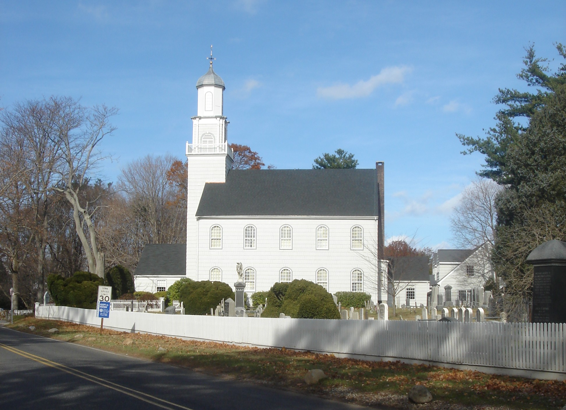 Setauket Presbyterian Church, Long Island.